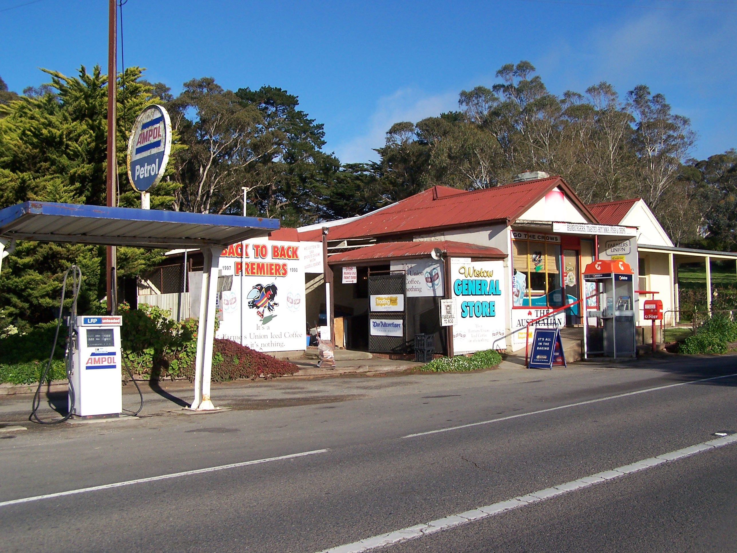 This is the Wistow shop. There is only one shop in Wistow, and this is it. Author: TheJosh